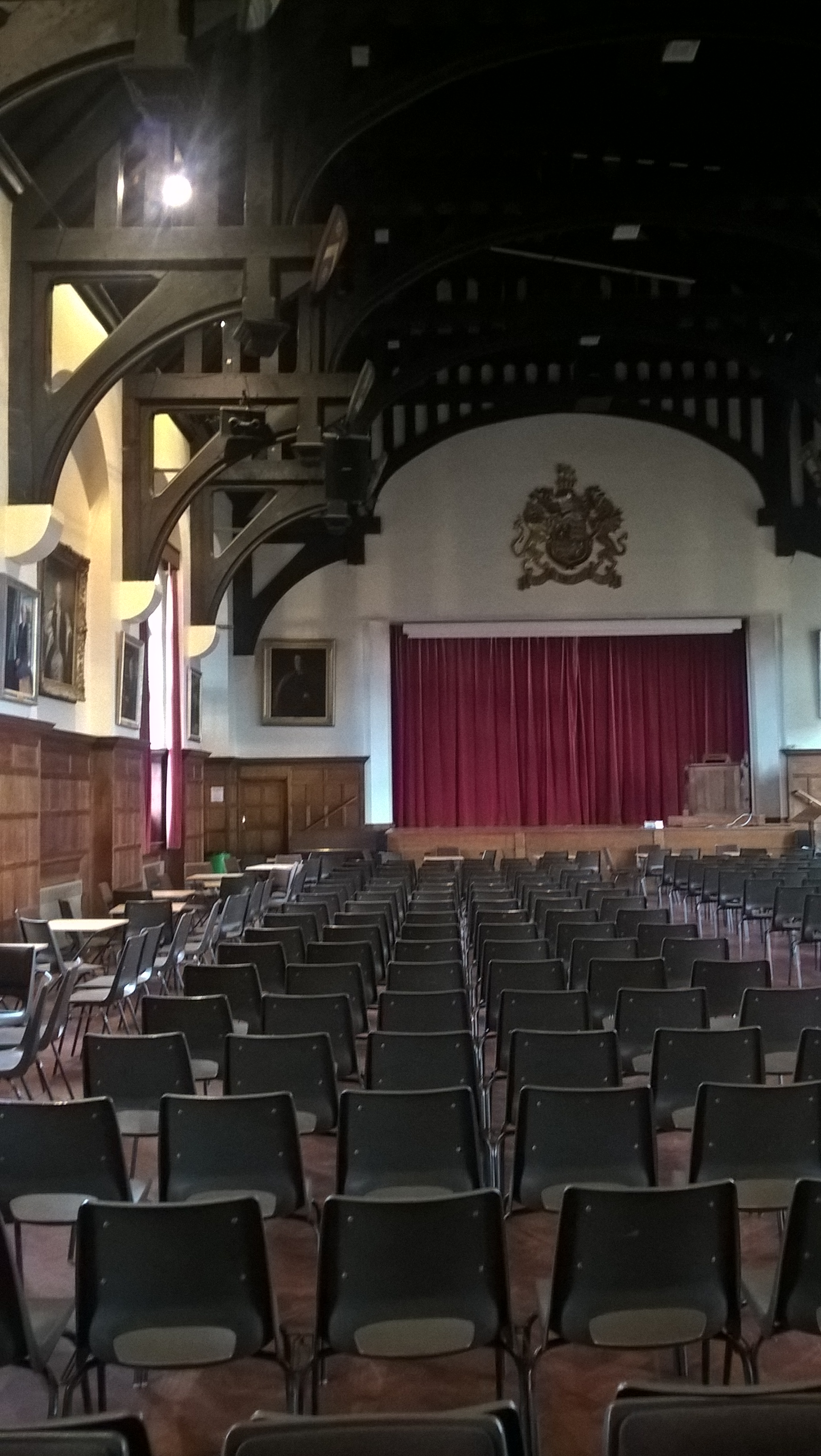 "Big School" (interior of main assembly hall) King Edward VI School, Birmingham